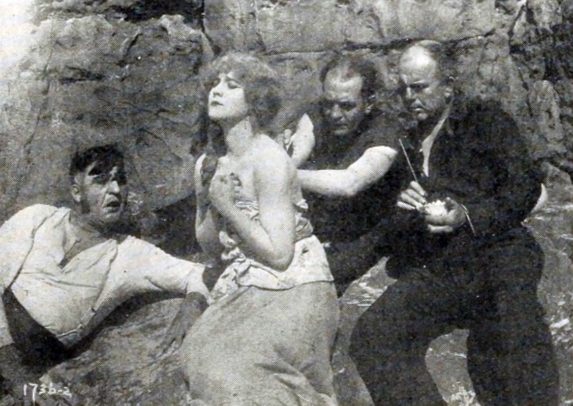 Illustration of a review in The Moving Picture World for the American film The Grasp of Greed (1916).